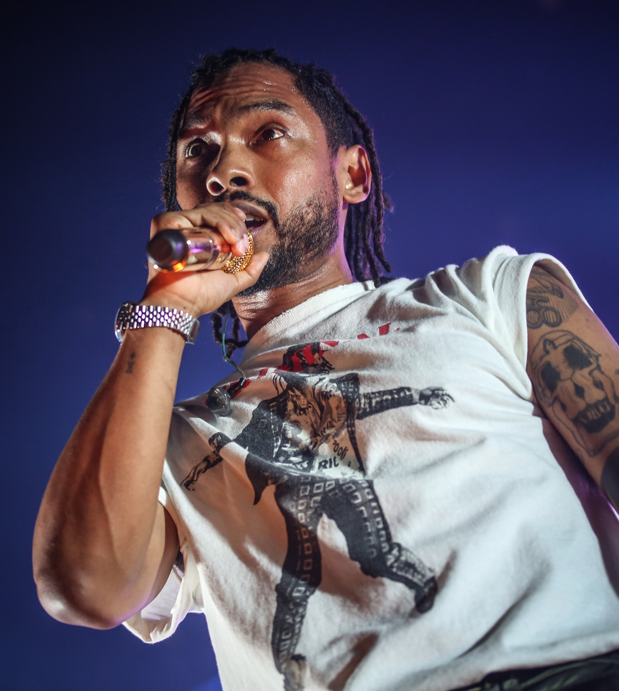 Miguel War and Leisure Tour St. Paul Palace Theatre 3/2